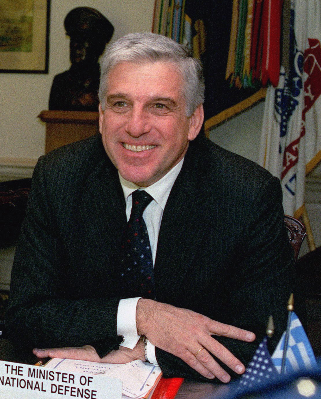 Yiannos Papantoniou, ex Greek Minister of Defense. cropped from DD-SD-07-15804.JPG